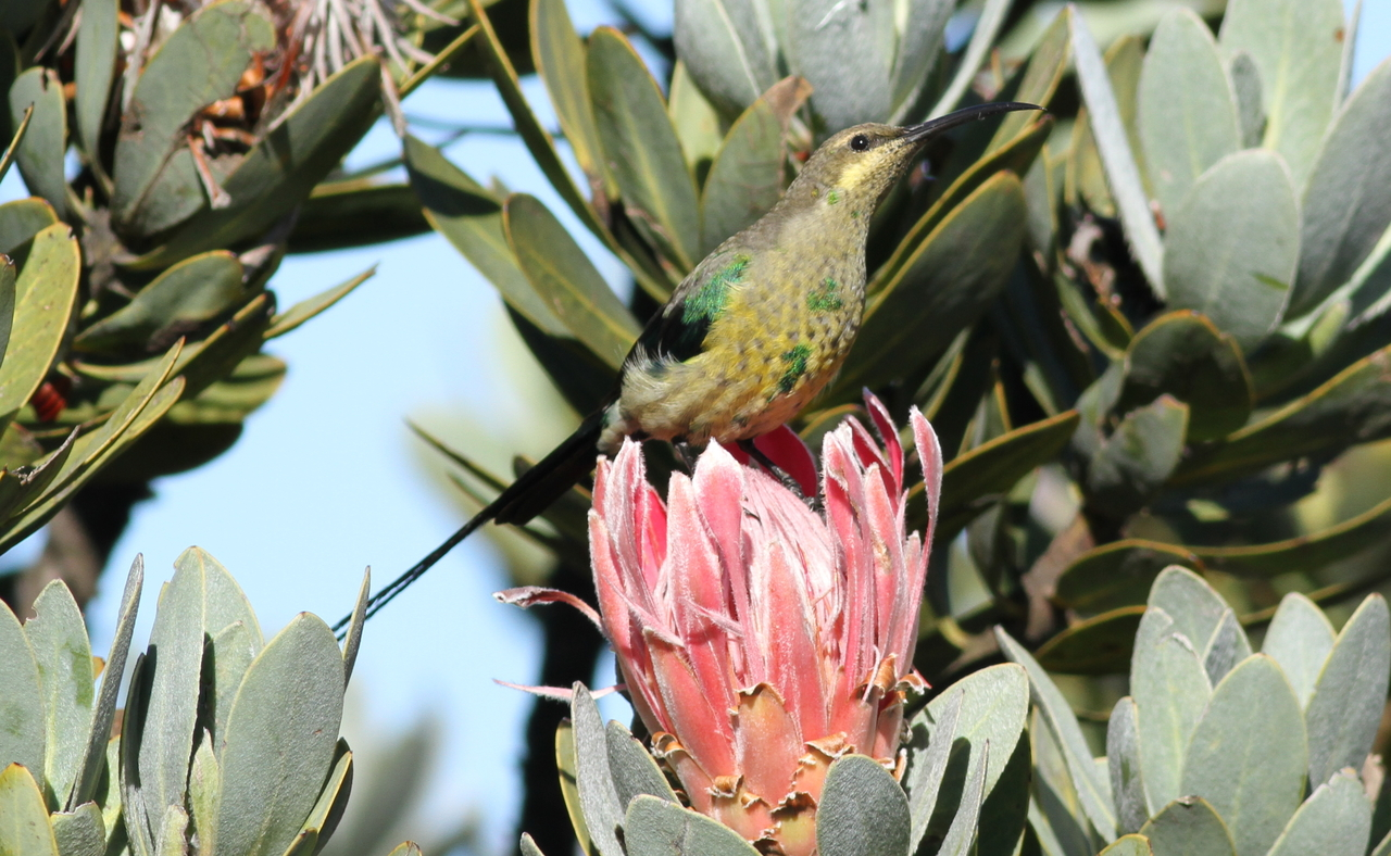 Malachite Sunbird, Nectarinia famosa, transitional at Marakele National Park